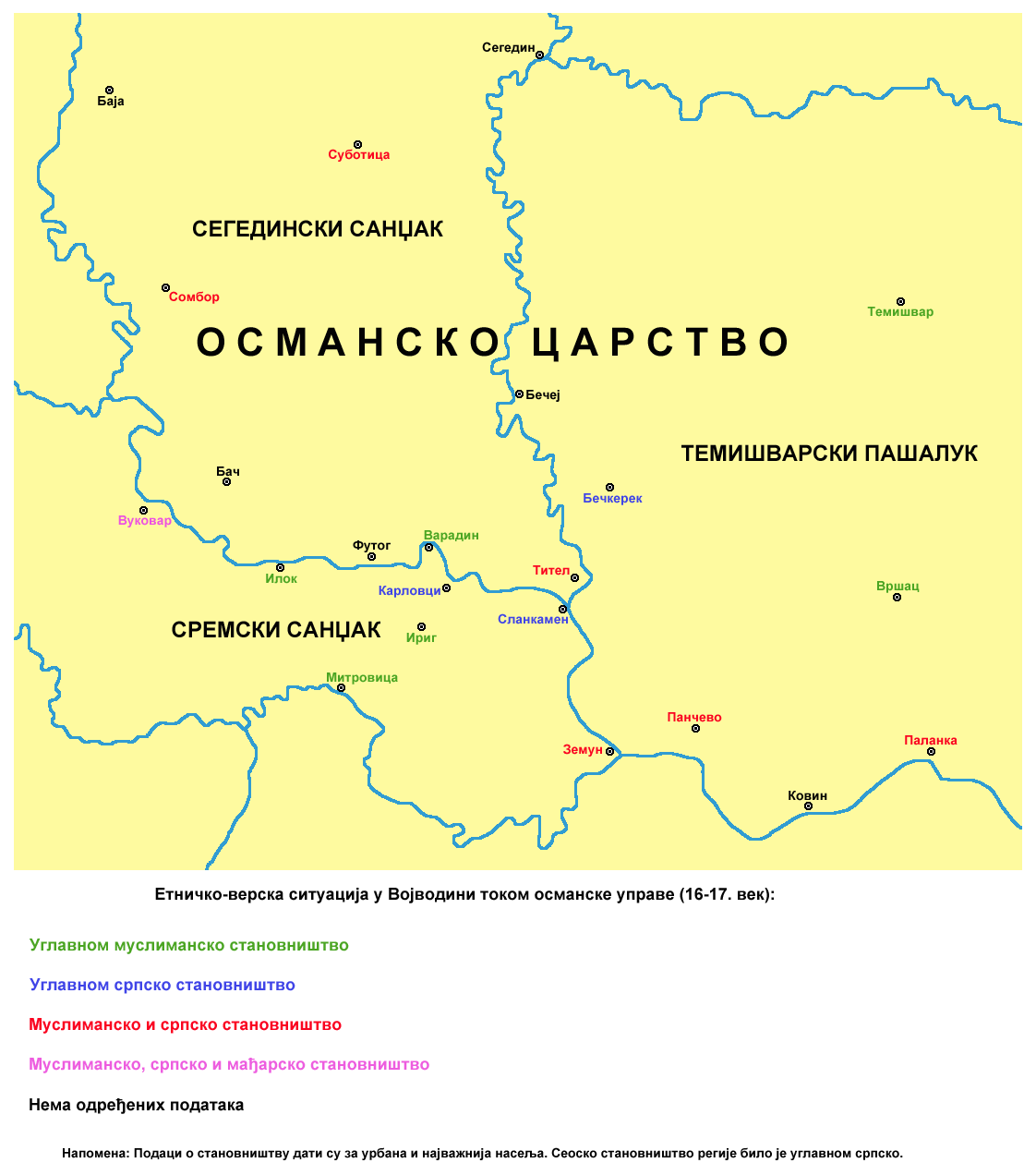 Ethno-religious situation in Vojvodina during Ottoman administration (16th-17th century).